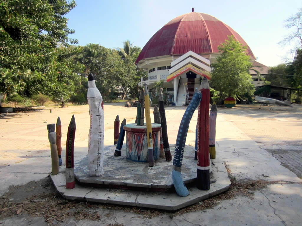 Arte Moris, Timor-Leste